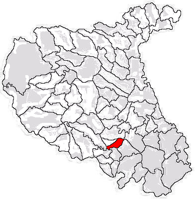 Map of limits of commune in Vrancea County